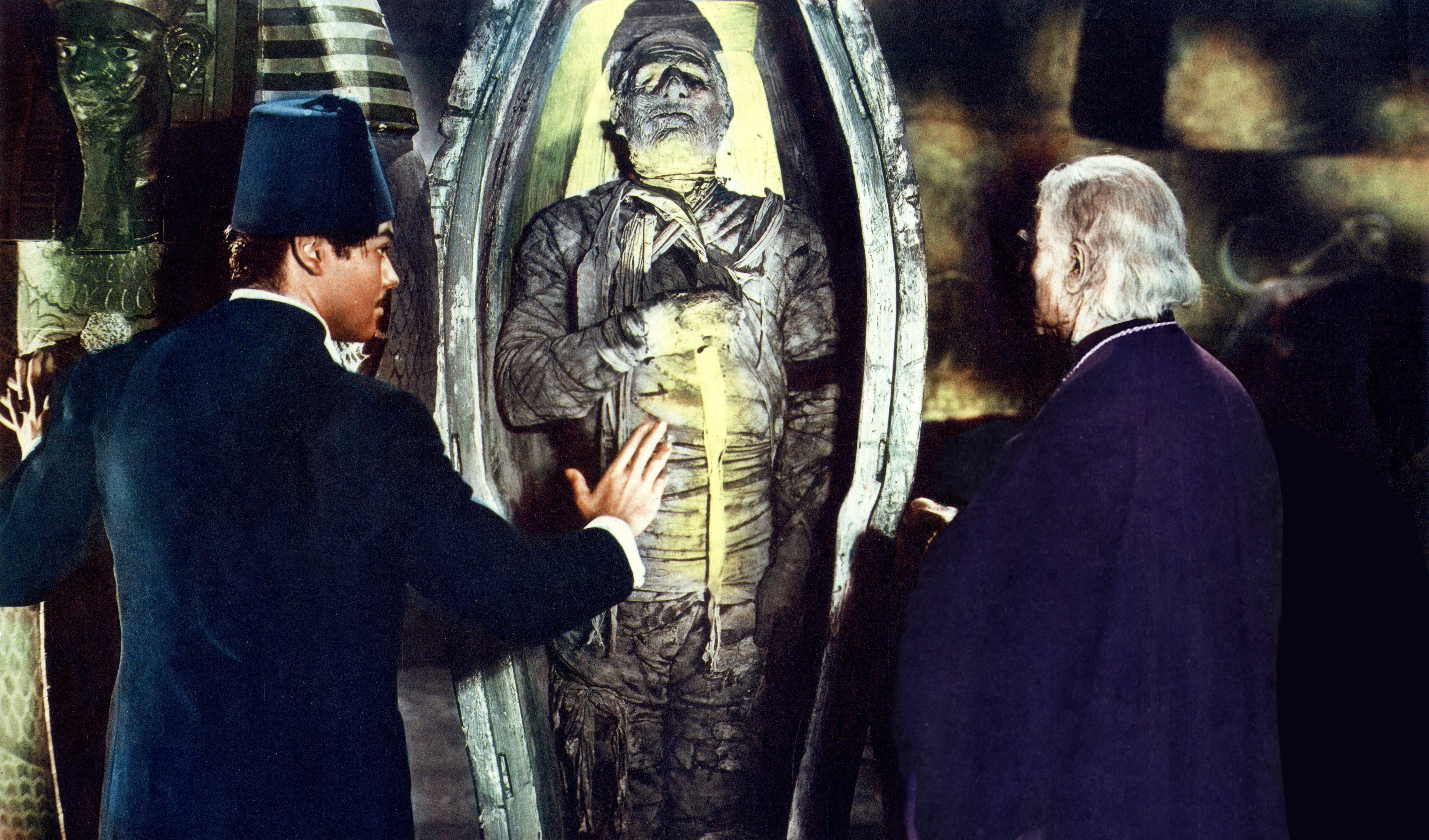 Cropped and edited lobby card for the 1942 film The Mummy's Tomb, featuring Lon Chaney Jr. This image is assumed to be in the public domain, as no copyright notice is in evidence.